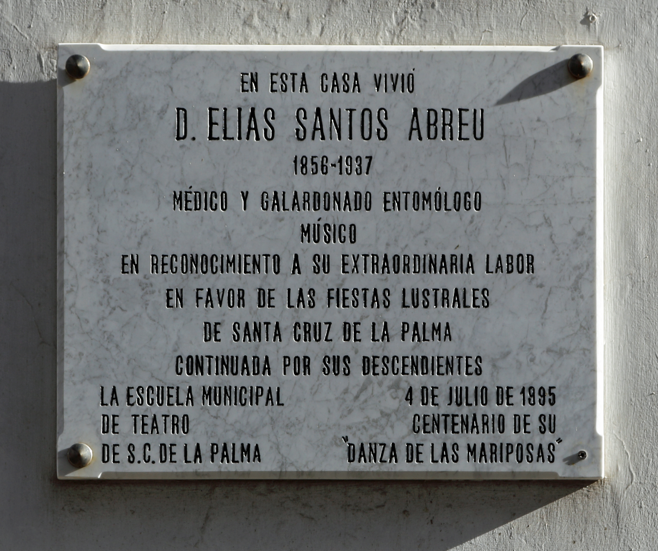 Santa Cruz de La Palma (Canary Islands): the house of Elías Santos Abreu, Spanish scientist, physician and musician - detail: commemorative plate on the façade